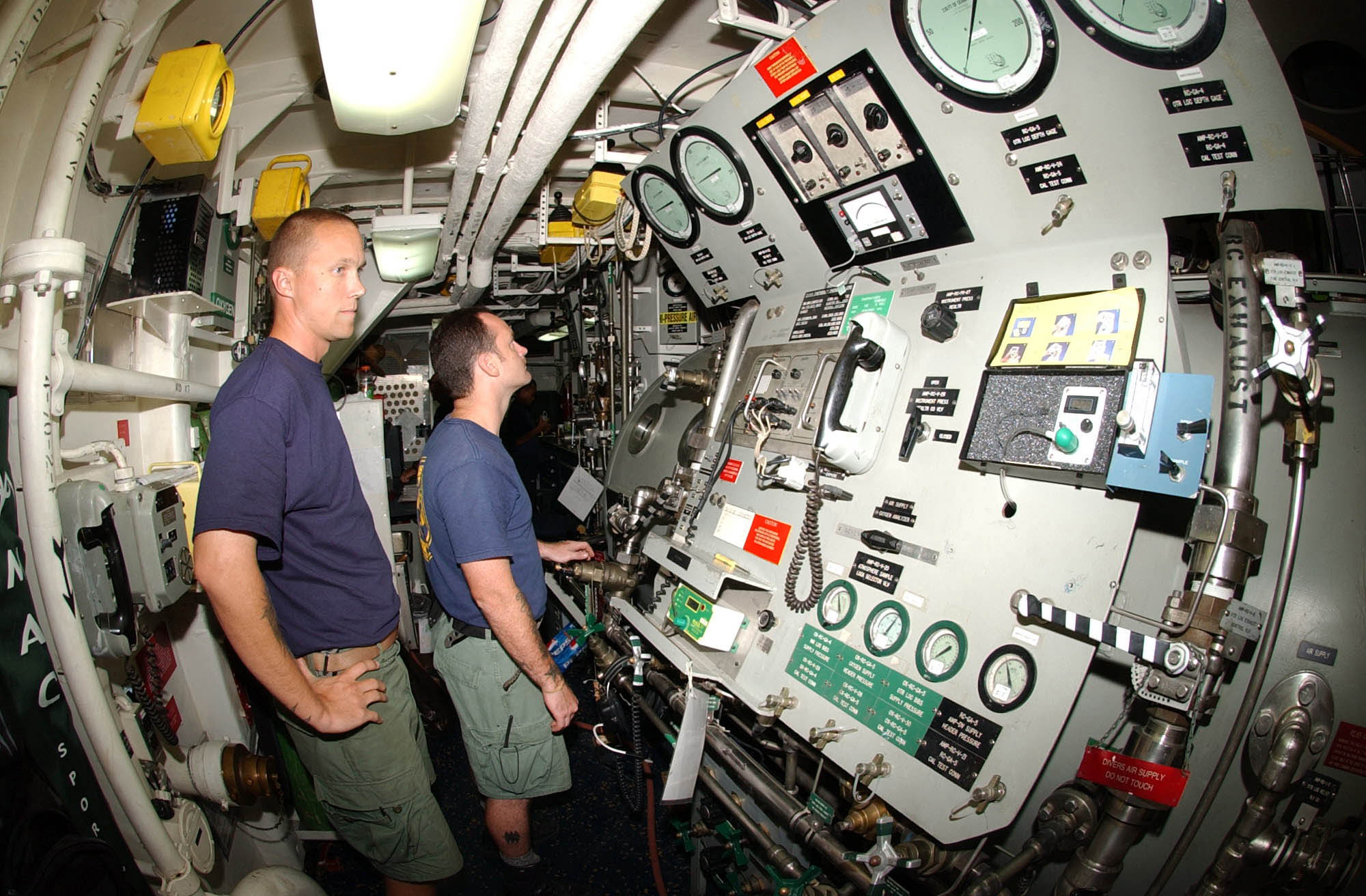 Gulf of Thailand (June 12, 2006) - Chief Navy Diver Jon Sommers and Navy Diver 1st Class Kevin Parsons monitor the surface phase of the decompression chamber aboard the rescue and salvage ship USS Salvor (ARS 52). Salvor is moored over what is presumed to be World War II-era USS Lagarto (SS 371). Salvor divers are assisting the Naval Historical Center in attempting to positively identify the wreck. The diving operation is part of the Thailand phase of the Cooperation Afloat Readiness and Training (CARAT) 2006 Exercise series. CARAT is an annual series of bilateral maritime training exercises between the U.S. and six Southeast Asia nations designed to build relationships and enhance the operational readiness of the participating forces. U.S. Navy photo by Mass Communication Specialist 2nd Class Robert S. Cole (RELEASED)